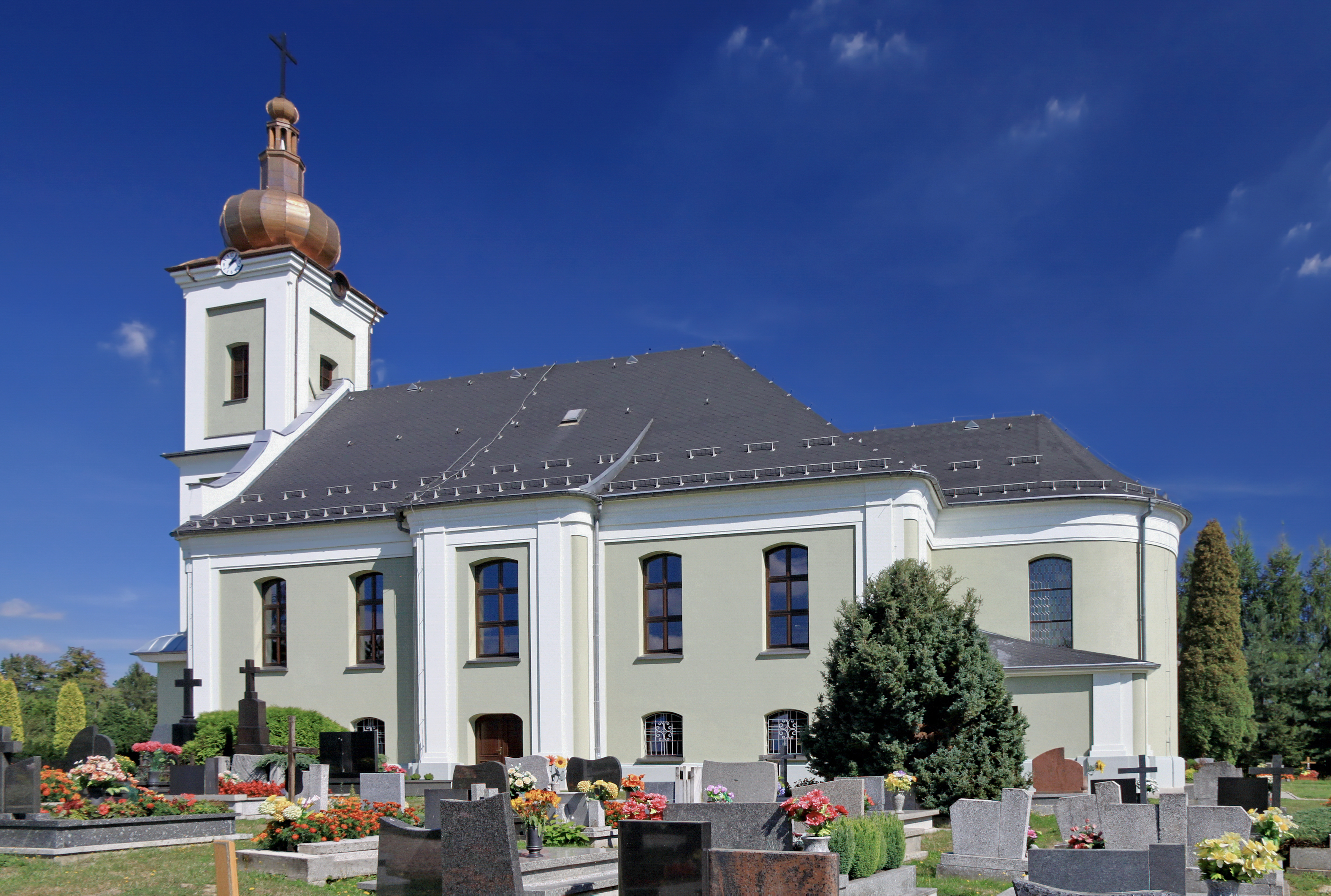 Golasowice, lutheran church, build in 1765, 1820, 1950